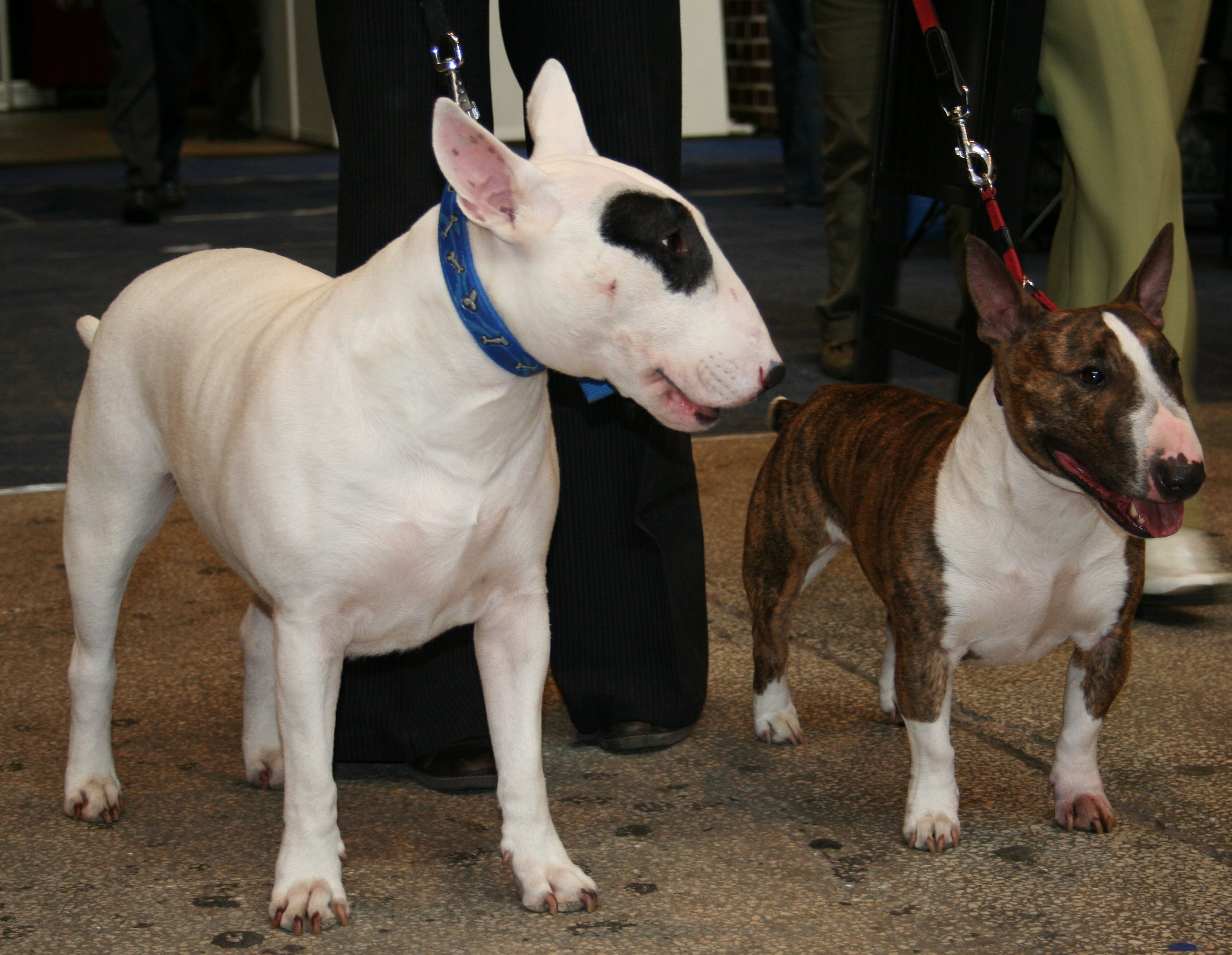 Bull_Terrier (standard QUATTRO Dziedzictwo Tudora)_and_Miniature Bull_Terier(Mooncraft's IN YOUR EYES)_during dogs show in Katowice, Poland